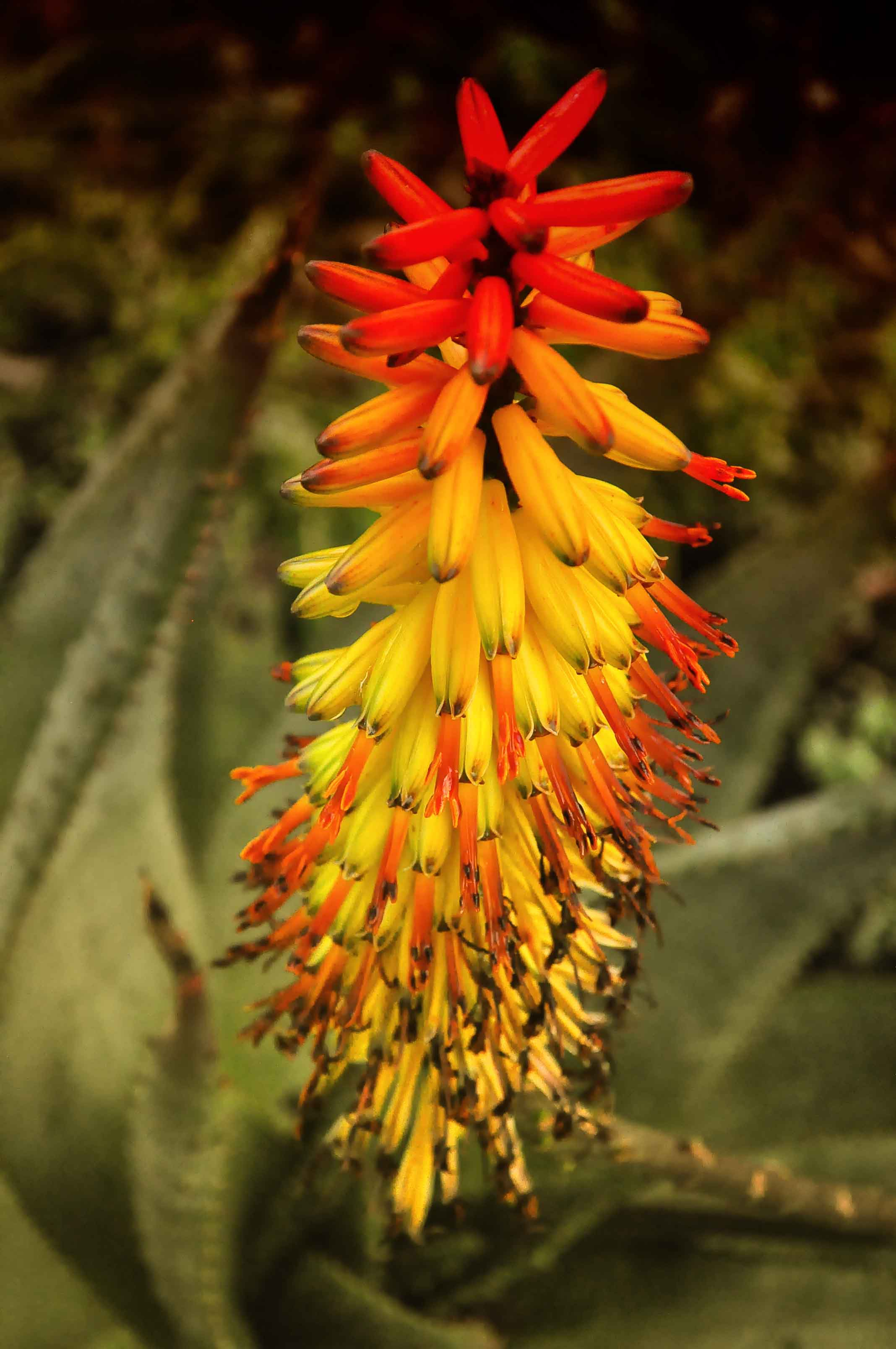 Aloe Ferox Flower